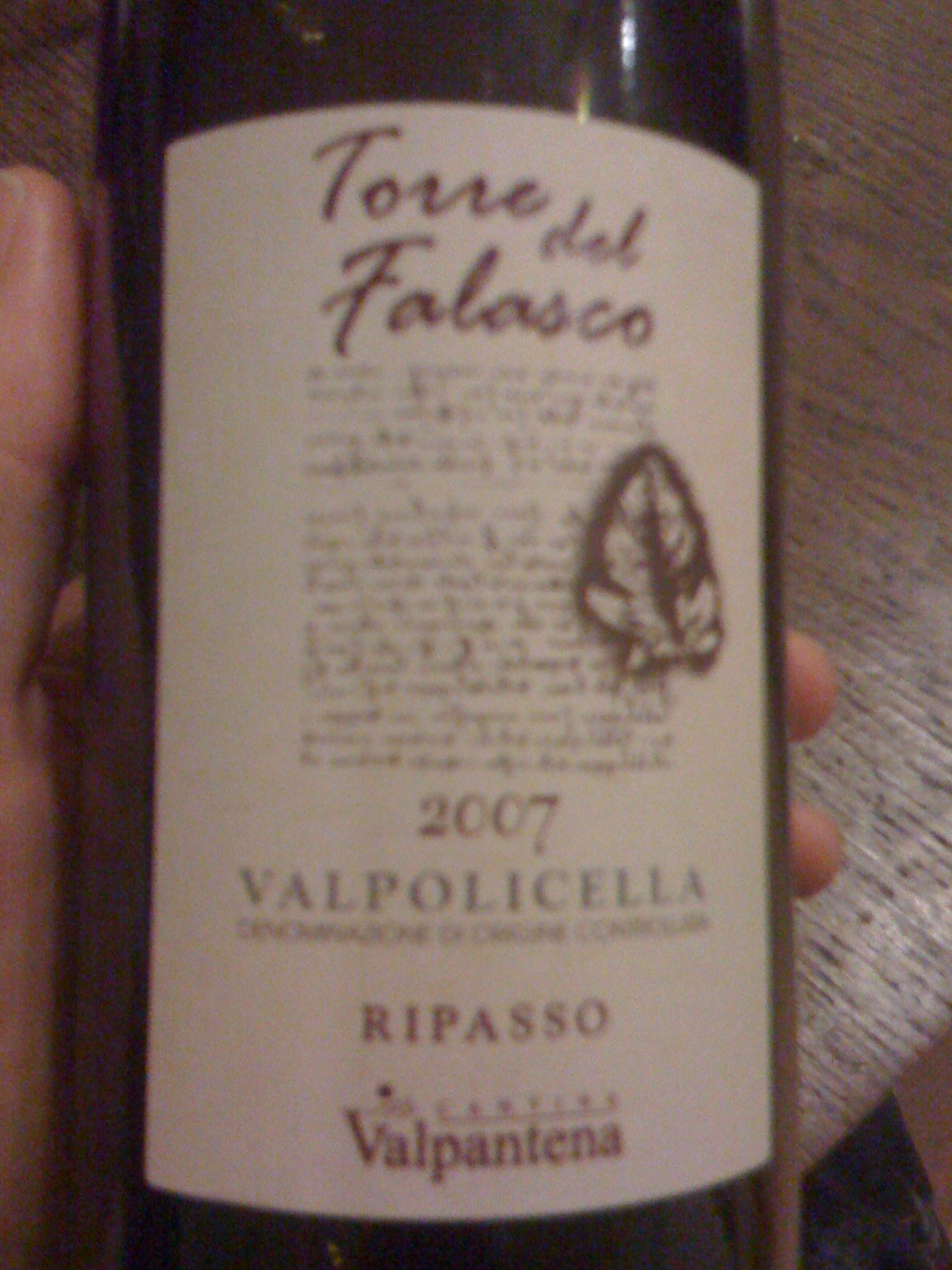 A bottle of the Italian DOC wine Valpolicella with the wine label indicating it is made in the ripasso style and is from the Pantena Valley instead of the Classico zone in the Monti Lessini hillsides.